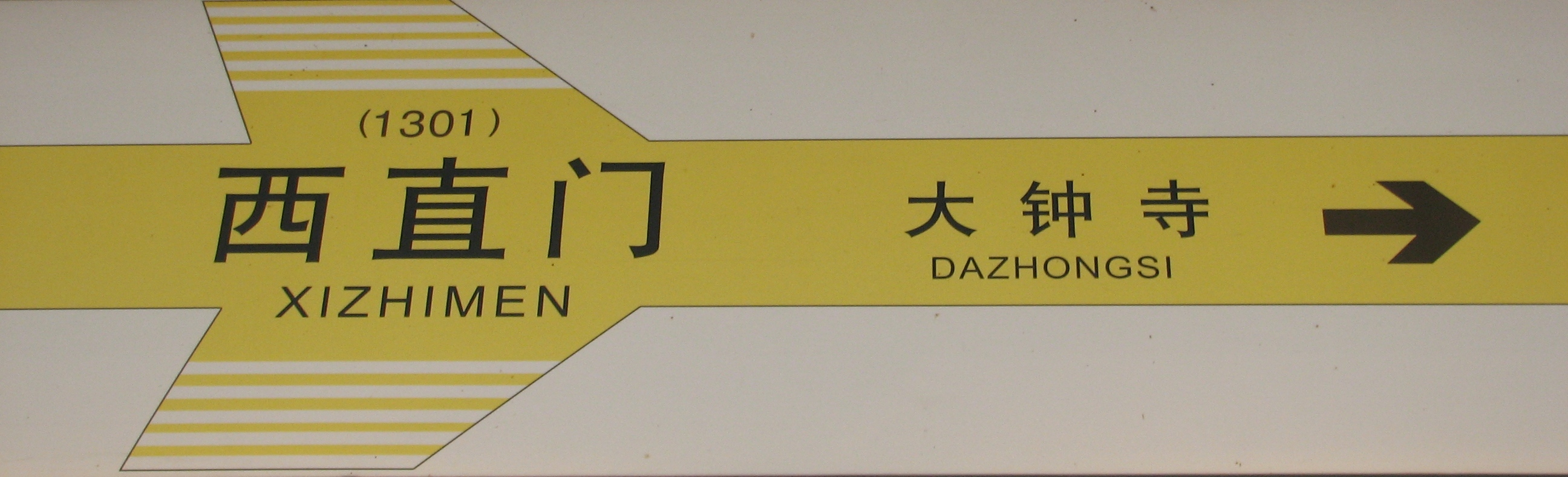 ファイル:Beijing Subway Station Marking Line-13.jpg Beijing Subway Station Route Marking Line#13